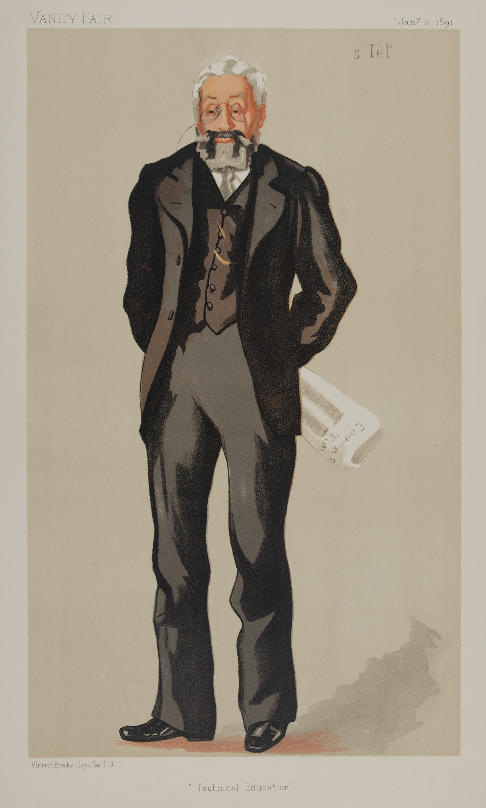 Caricature of Sir Philip Magnus (1842-1933). Caption read "Technical Education".